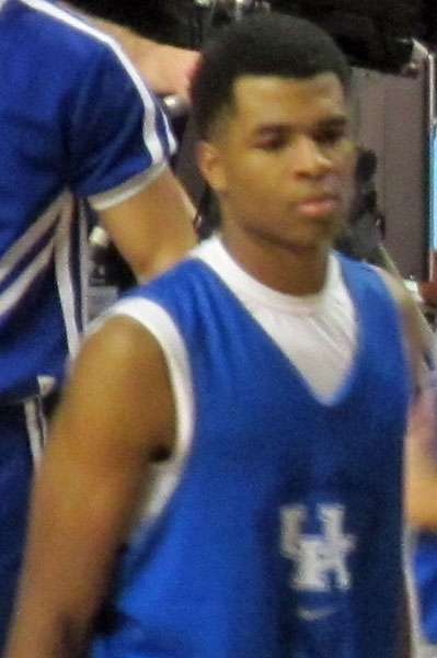 Andrew Harrison in Kentucky's 2013 Blue-White scrimmage game at Rupp Arena in Lexington, Kentucky